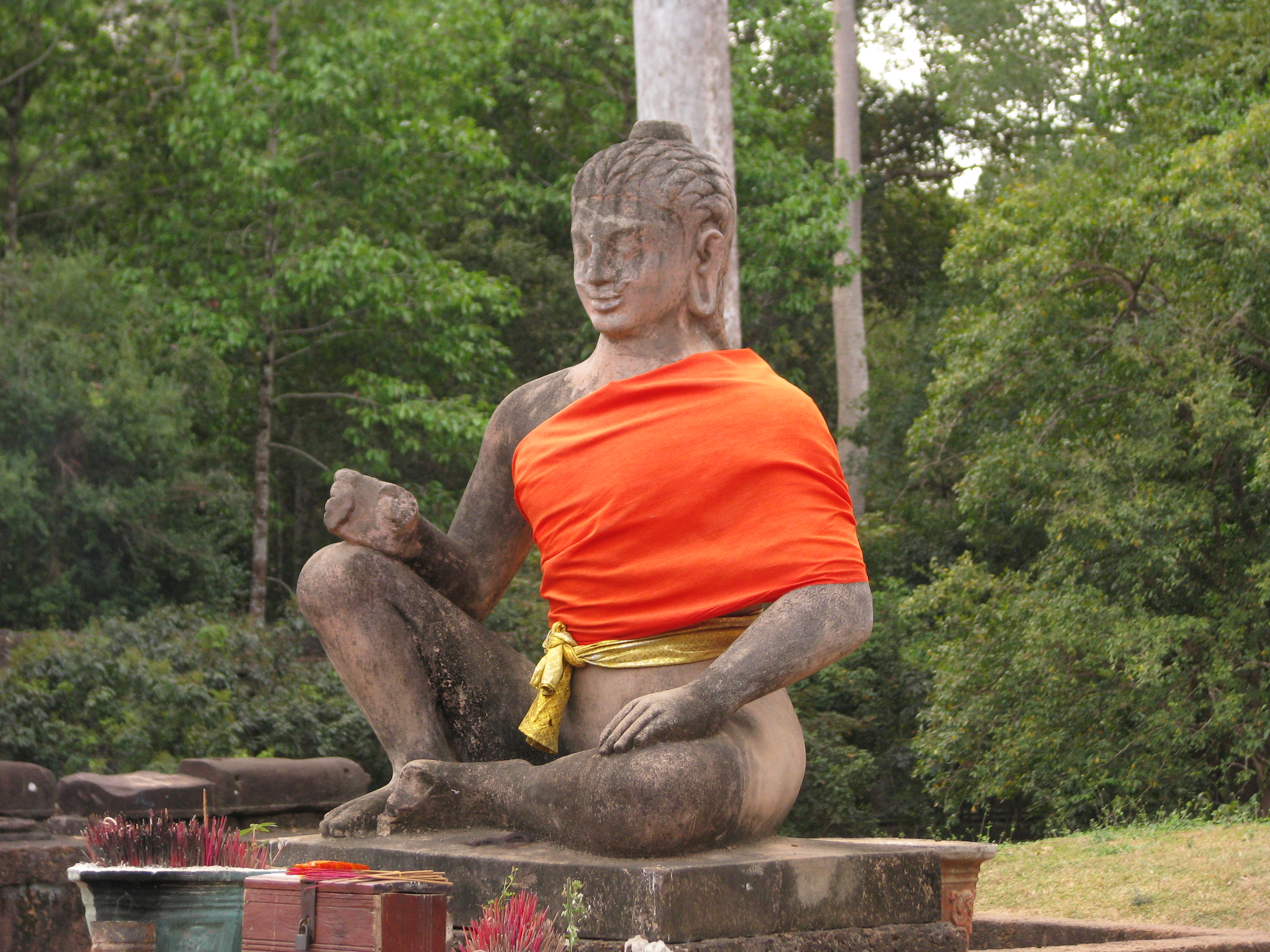 Remaining seated Buddhist statue venerated in rich orange is what I'm told (from Wikipedia) gives the Terrace of the Leper King its name.